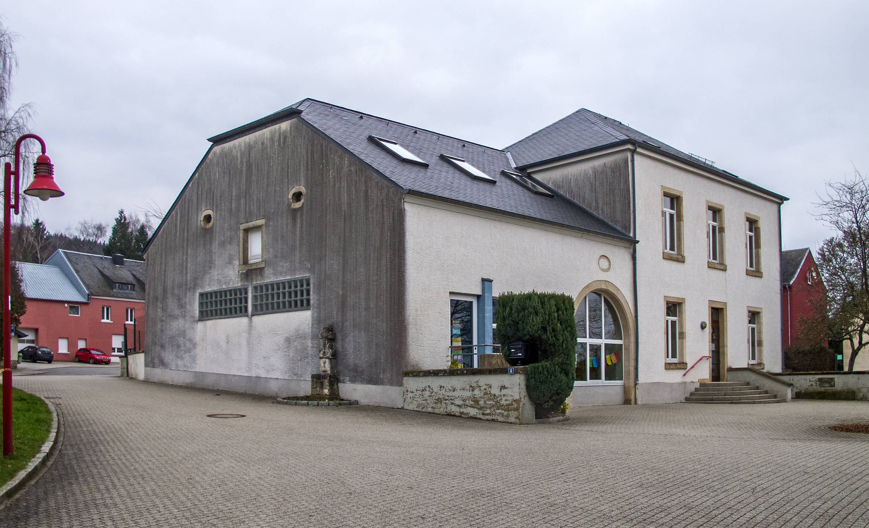 Former rectory in Garnich near the church, actually school and parrish office